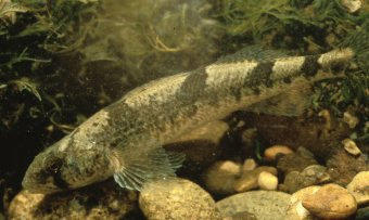 This is an image of the snail darter Percina tanasi. It is a US Fish and Wildlife Service photo that was taken from .